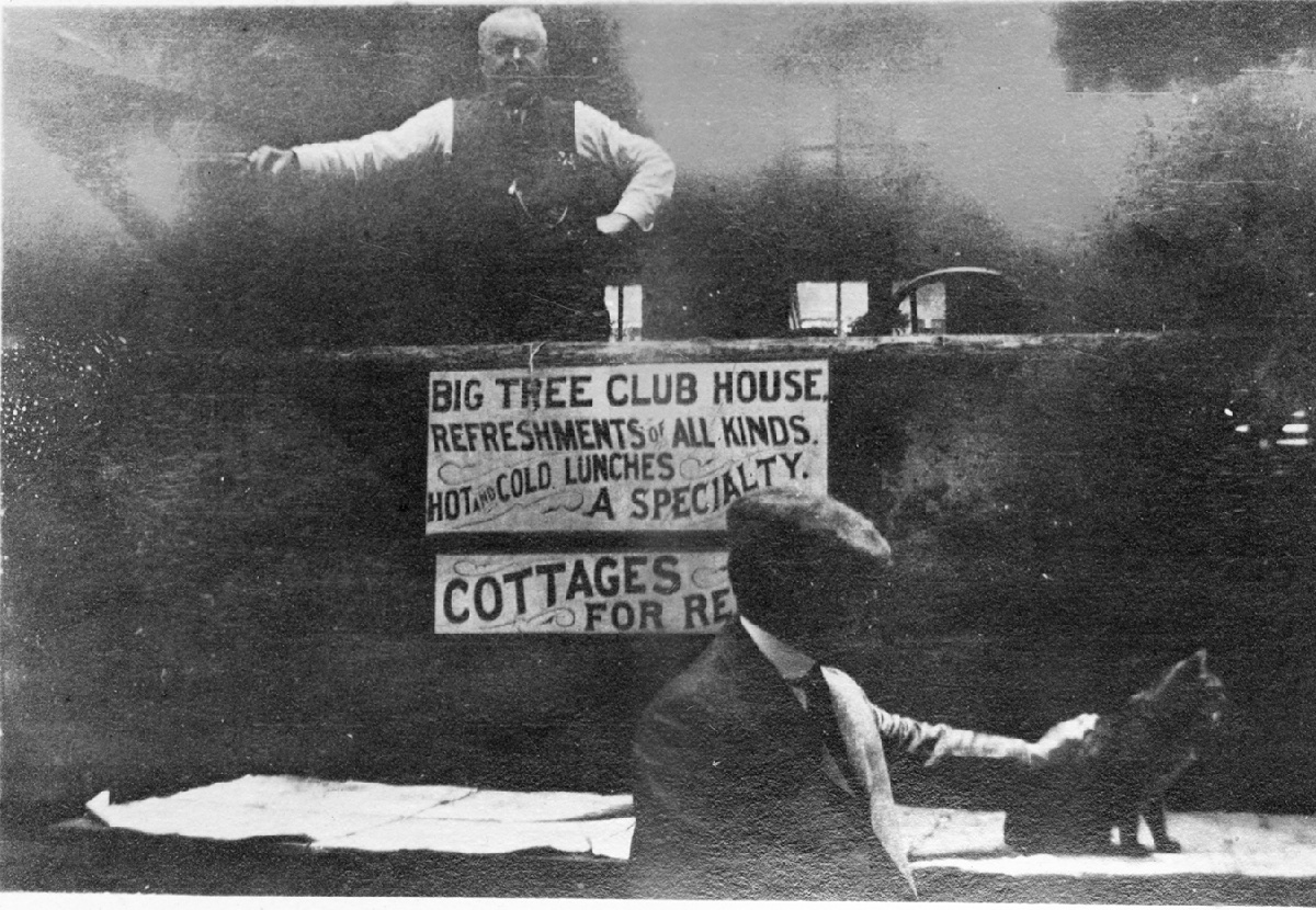 Big Tree Club House, Rainier Beach (now part of Seattle), Washington, 1905.